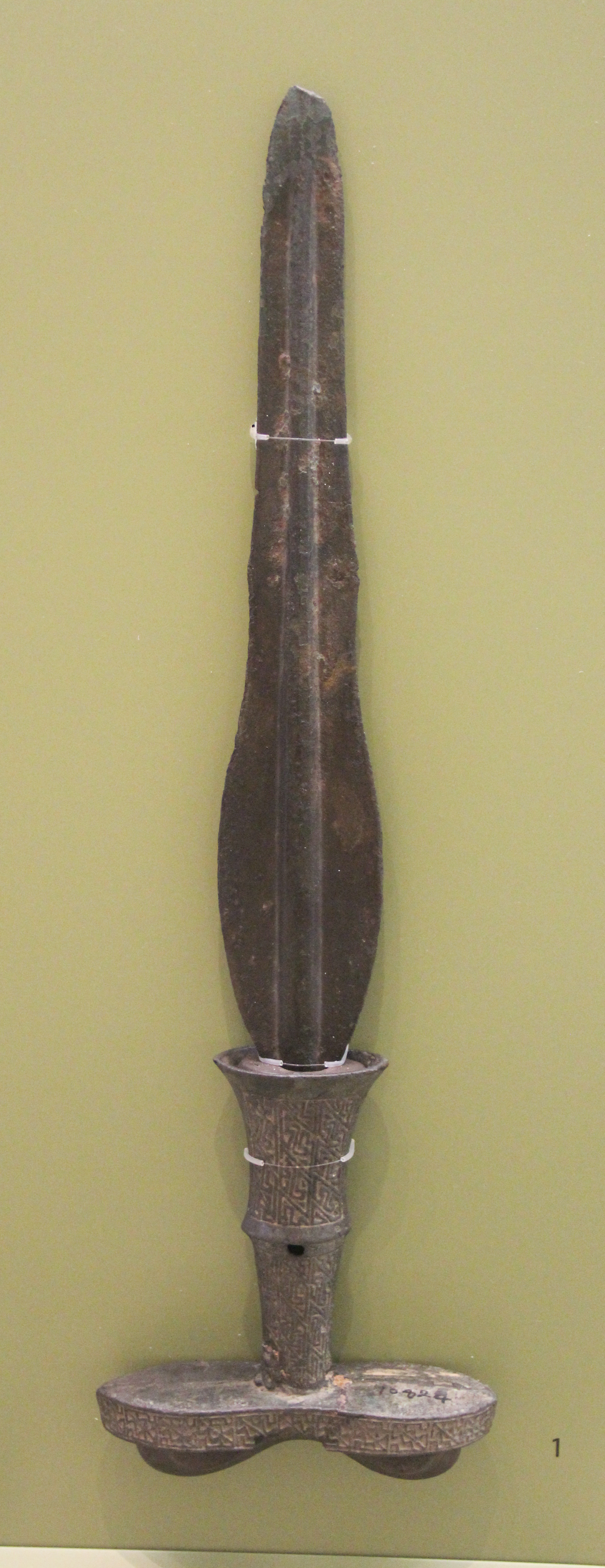 Liaoning-type bronze dagger. Bronze Age, L. 42 cm. Sincheon-gun, Hwanghaenam-do. National Museum of Korea. acc. number Bongwan-010824-00000